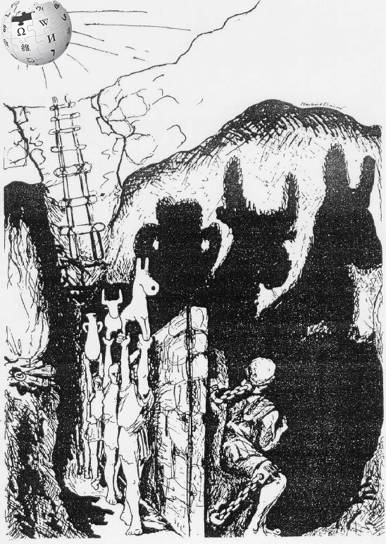 Meme of Plato's "Allegory of the Cave", drawing by Markus Maurer with Wikipeda's logo as the sun